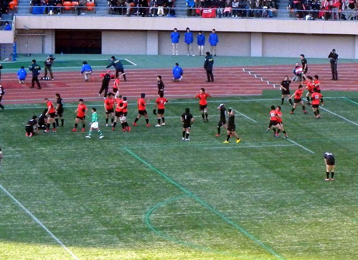 Teikyo University Rugby Football Club Players